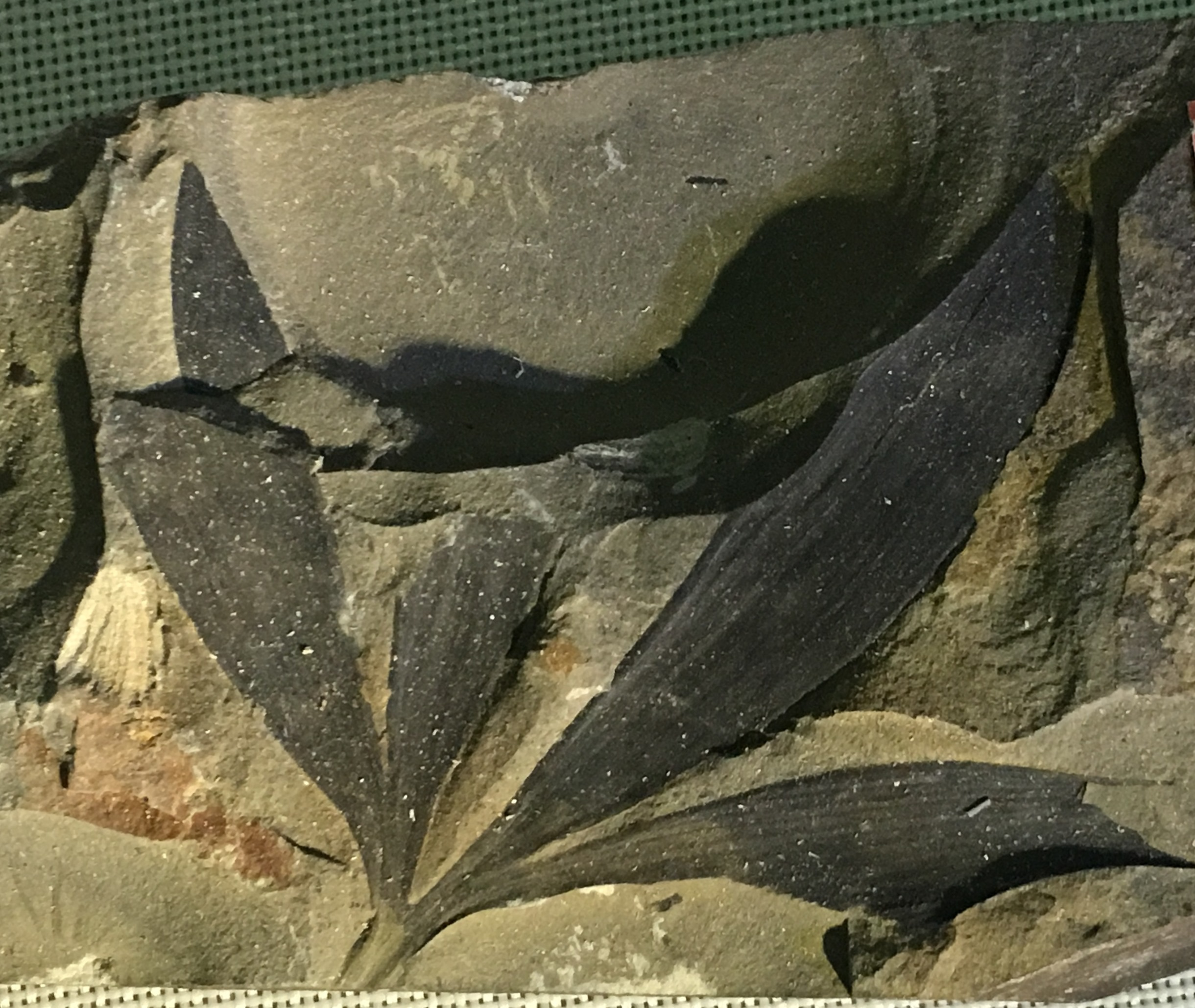 Fossile specimen at the Beijing Museum of Natural History, China.